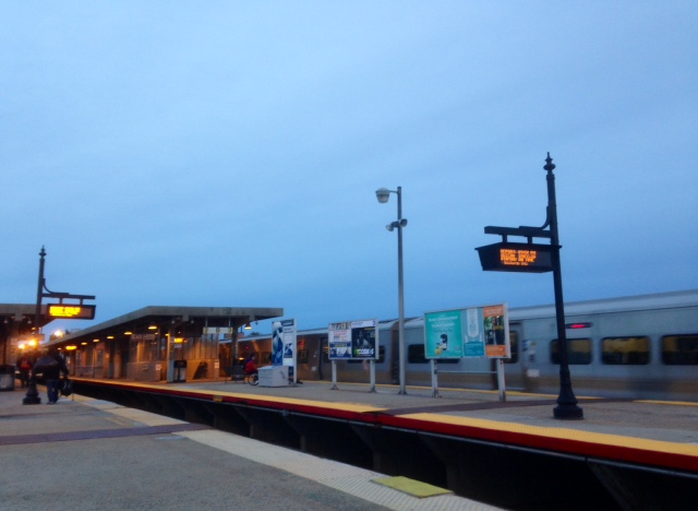 LIRR Babylon Station